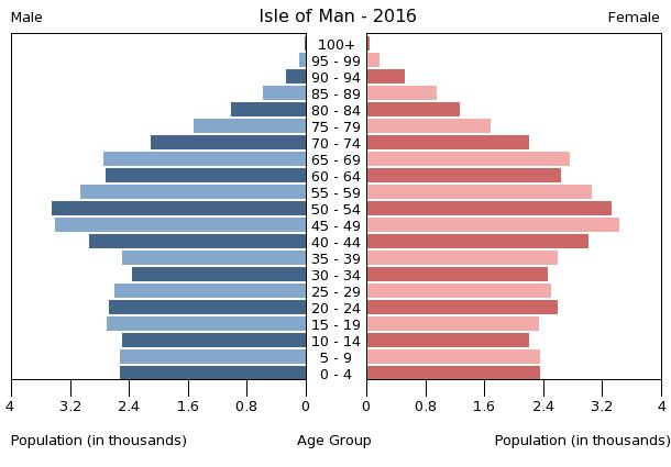 The population pyramid of Isle of Man illustrates the age and sex structure of population and may provide insights about political and social stability, as well as economic development. The population is distributed along the horizontal axis, with males shown on the left and females on the right. The male and female populations are broken down into 5-year age groups represented as horizontal bars along the vertical axis, with the youngest age groups at the bottom and the oldest at the top. The shape of the population pyramid gradually evolves over time based on fertility, mortality, and international migration trends.